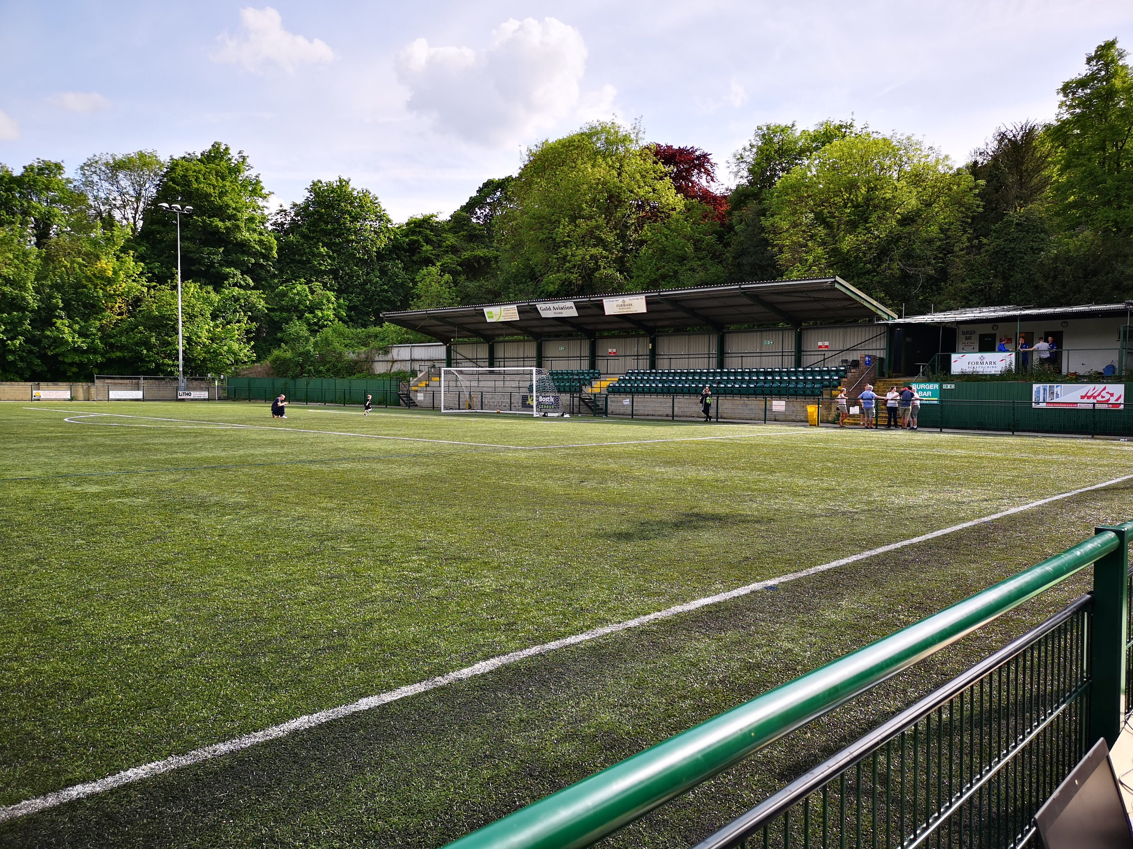 South stand of Church Road football ground, home of Whyteleafe FC in Whyteleafe, Surrey.